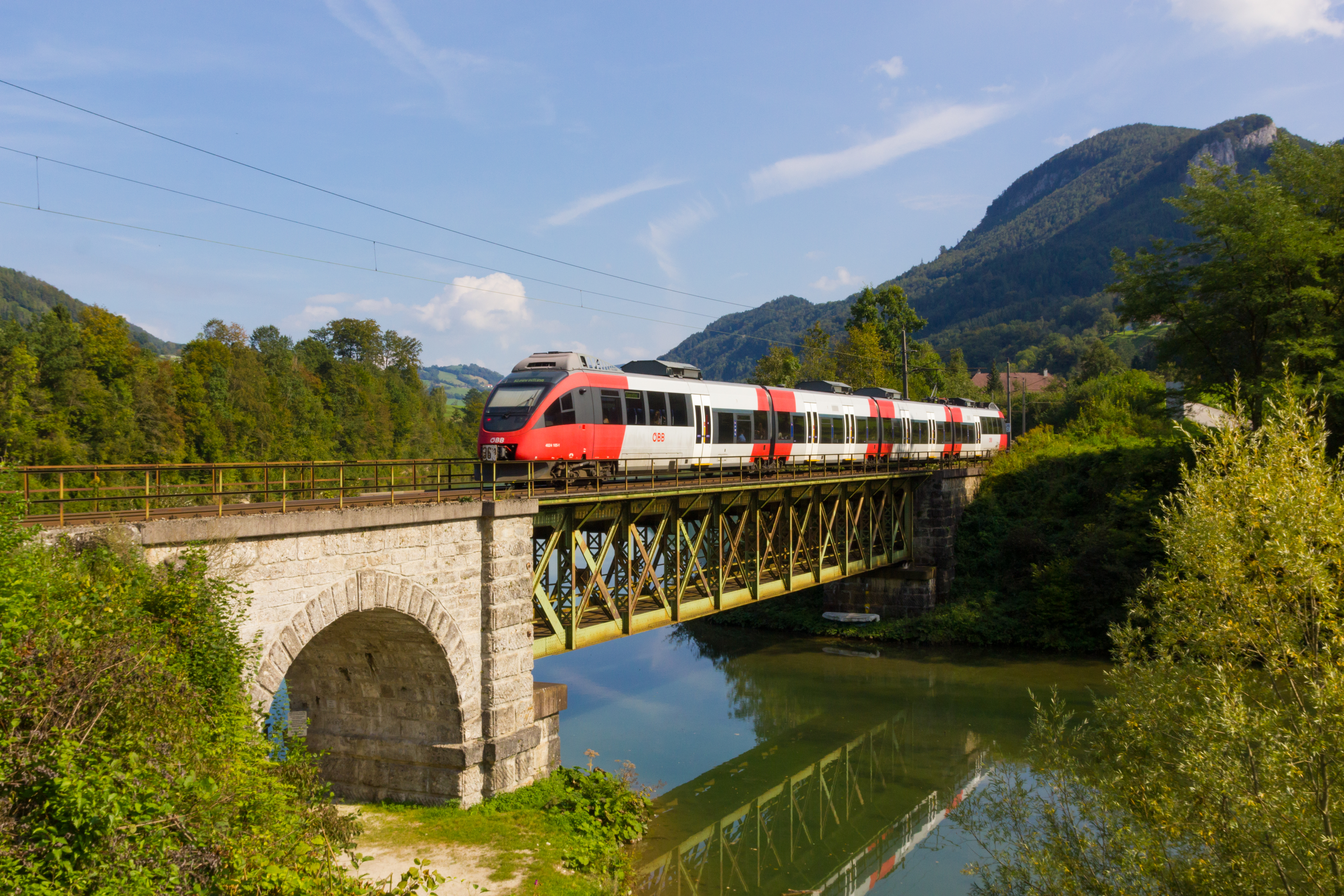 ÖBB 4024-105 heading southwards over the bridge near Trattenbach.